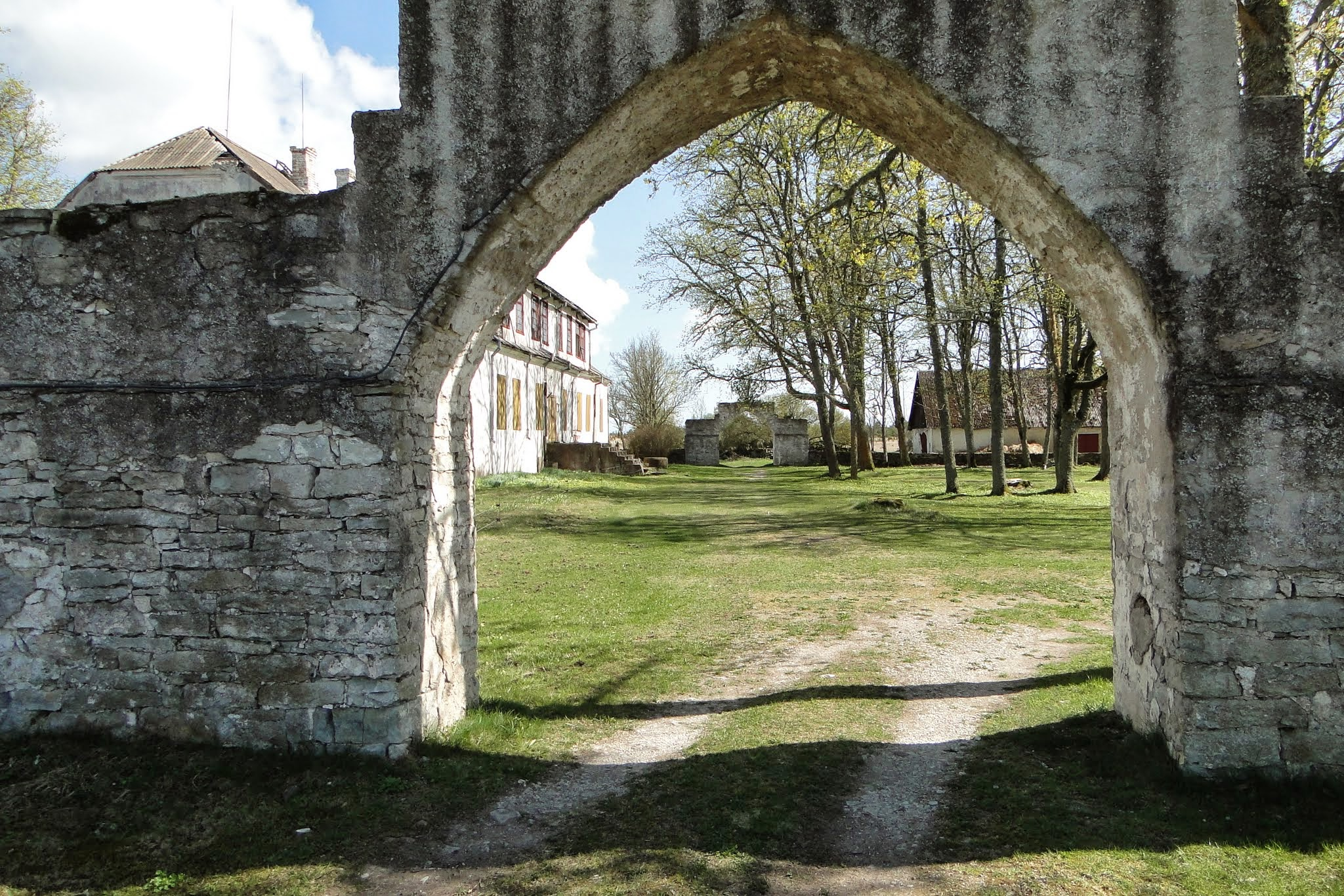 Bellingshausen farm in Saaremaa